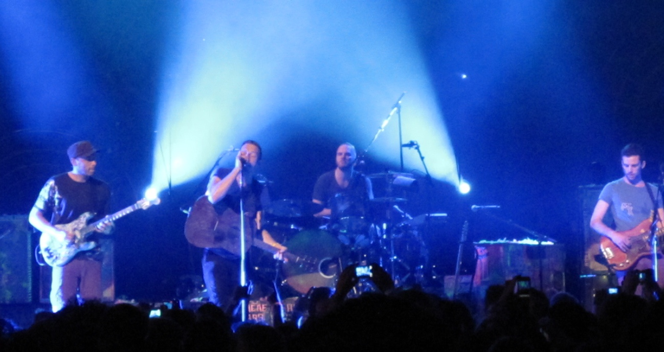 Coldplay at the iTunes Festival 2011